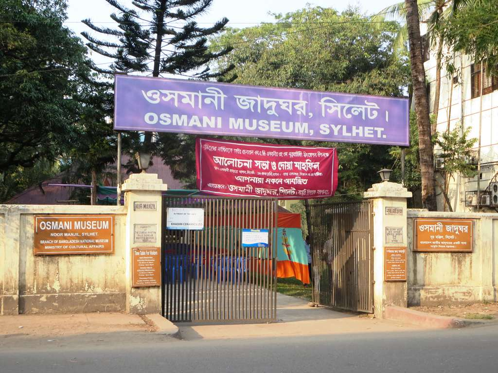 The Osmani Museum in Sylhet, Bangladesh, occupies the ancestral home of General Muhammad Ataul Gani Osmani (1918-1984), commander-in-chief of Bangladeshi forces during the 1971 independence war.